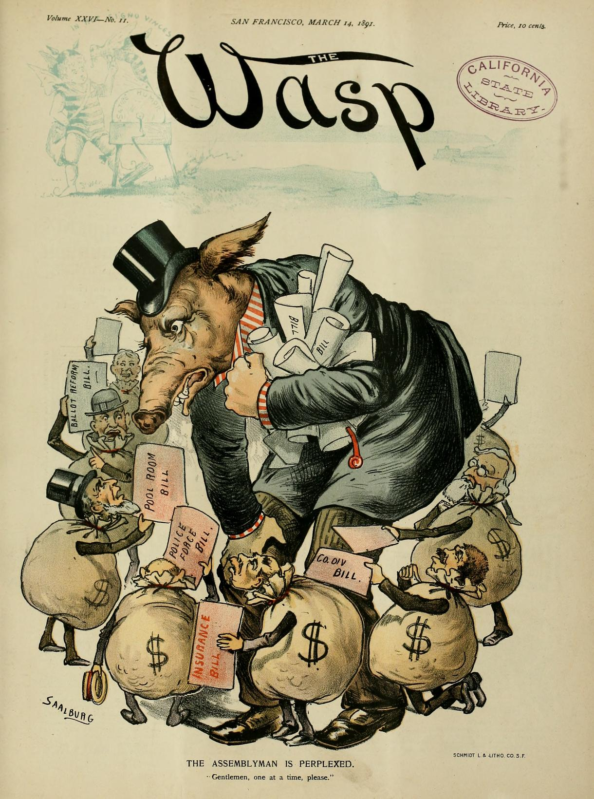 "The Assemblyman is perplexed"